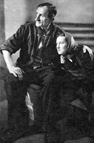 Two Polish actors in Czech piece